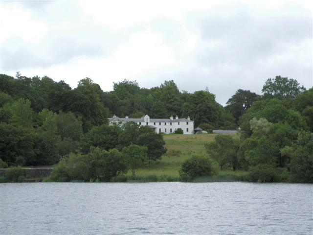 Ely Lodge It has a great view of Lough Erne